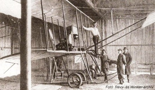 Ágoston Kutassy's Farman III biplane with a 40 hp. Vivinus motor